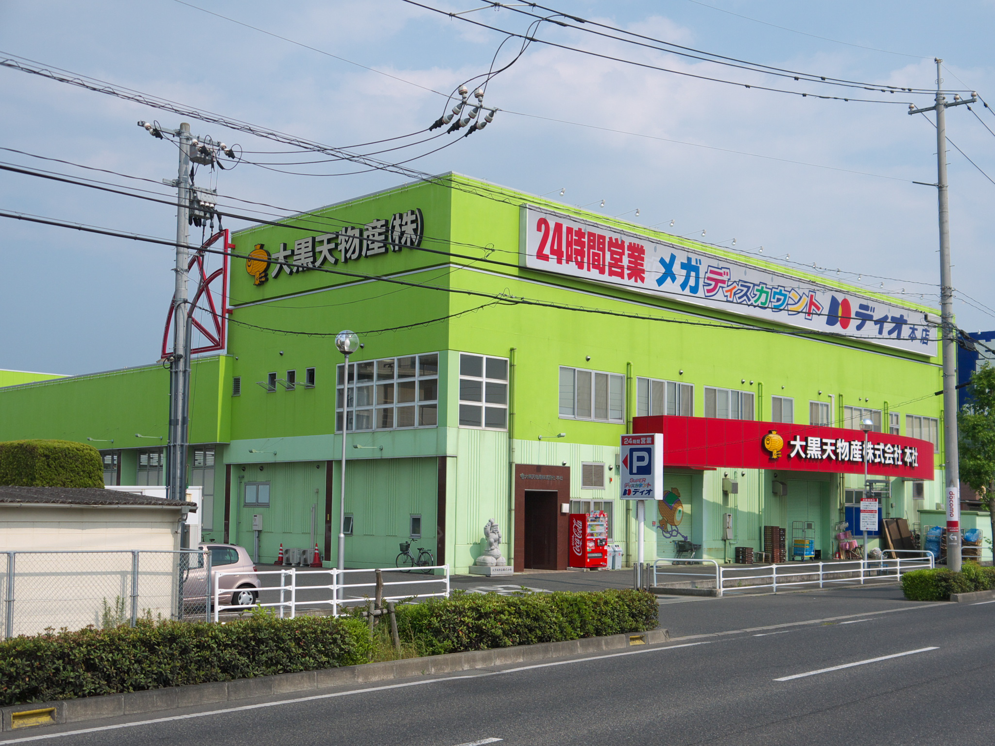 Daikokuten Bussan Company Head Office (Dio head store)